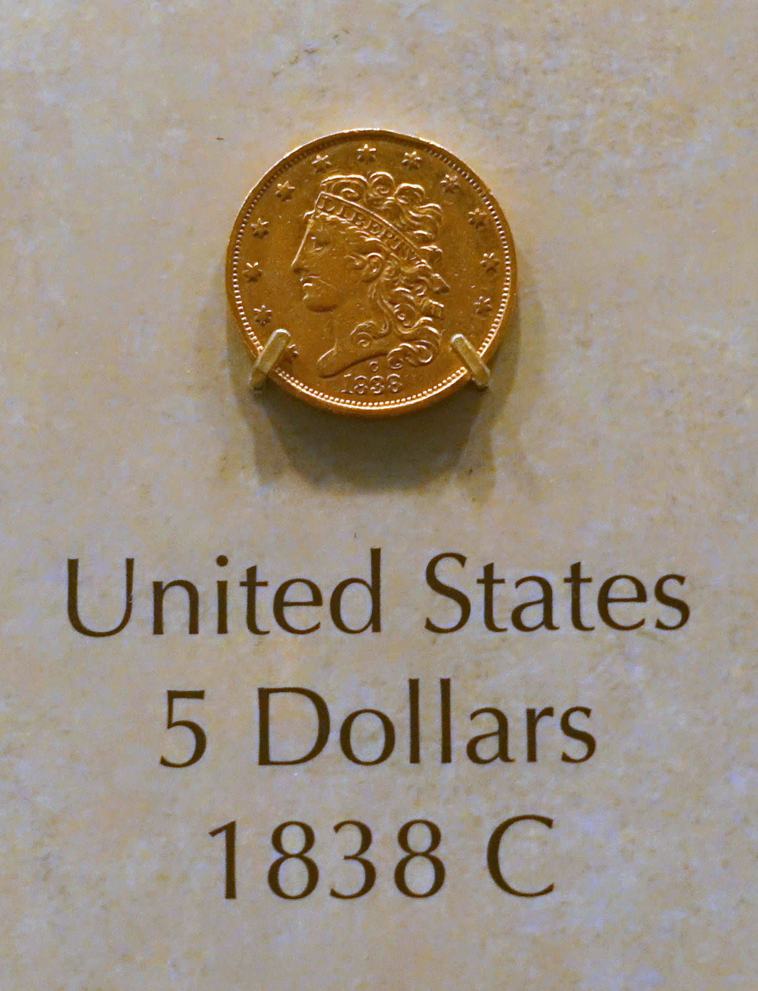 Exhibit in the National Museum of American History, Washington, DC, USA.